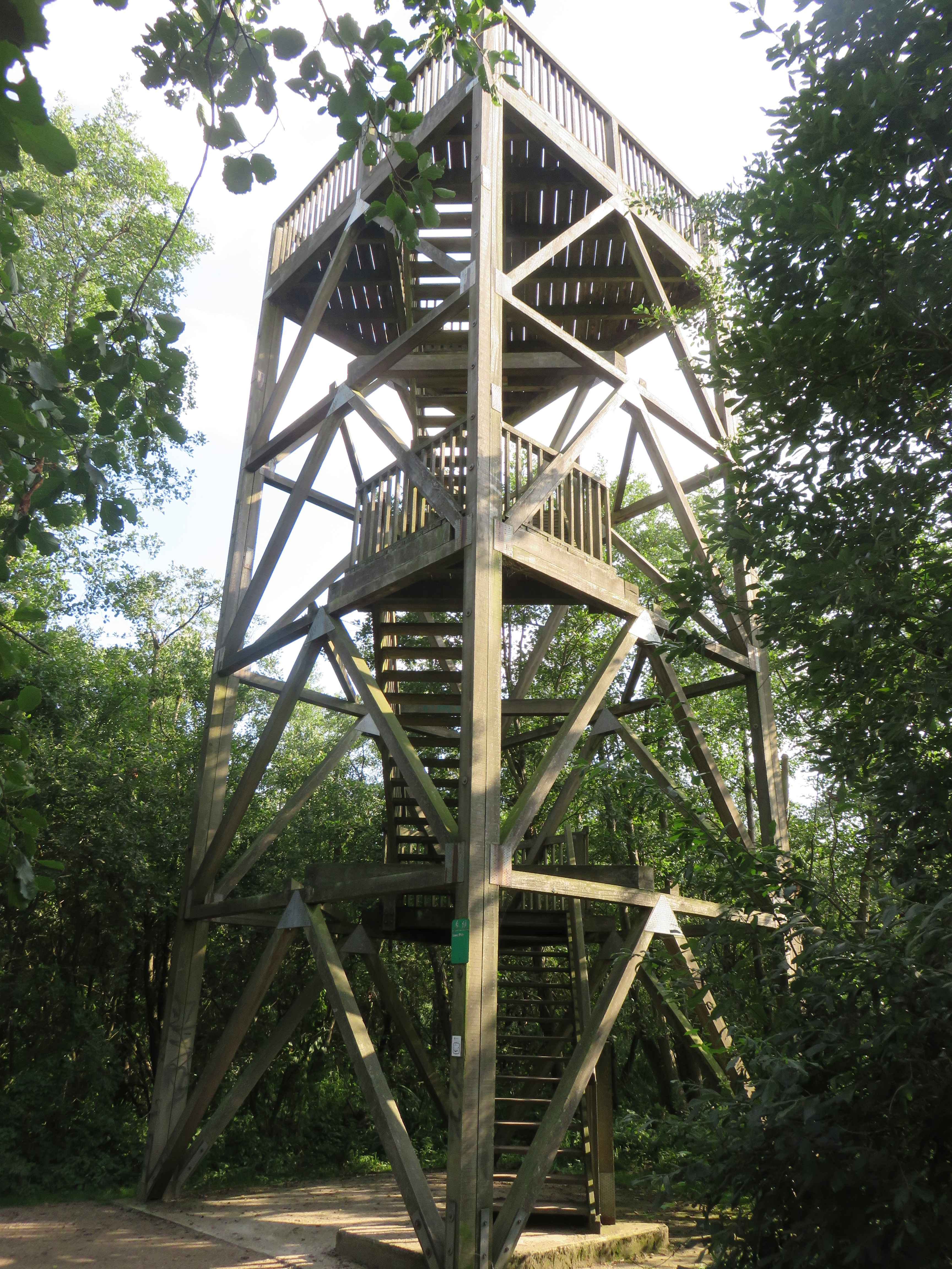 Viewing platform "Hermann-Löns-Blick"